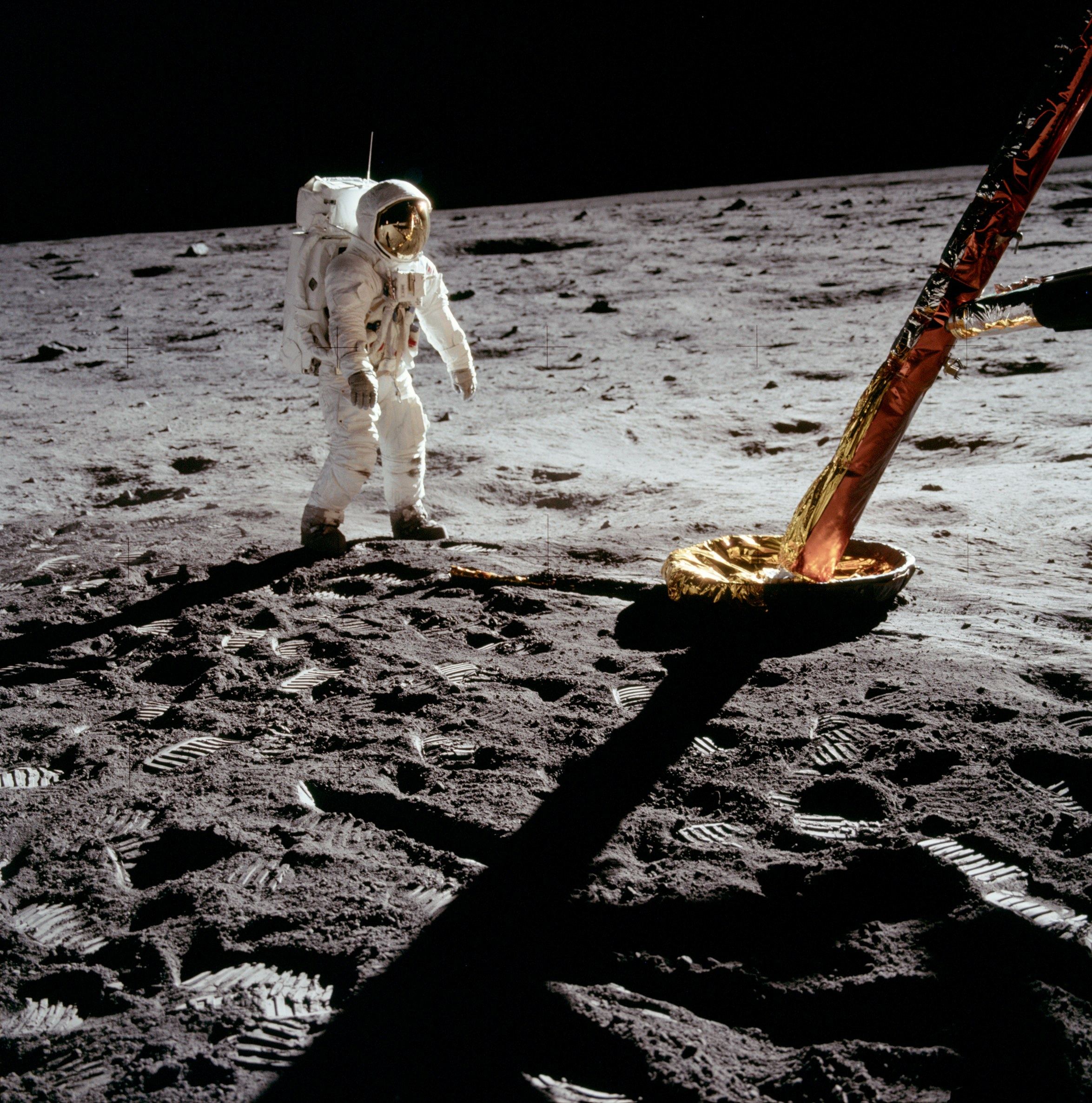 Buzz is standing just beyond the north strut. Note the distinctive dust smudges on Buzz's legs. The photo also shows the furrows in the bulk sample area and the area to the left of the footpad that shows unmistakable signs of sweeping by the descent engine exhaust. In a detail Ulli Lotzmann notes a reflected image of the rendezvous radar.